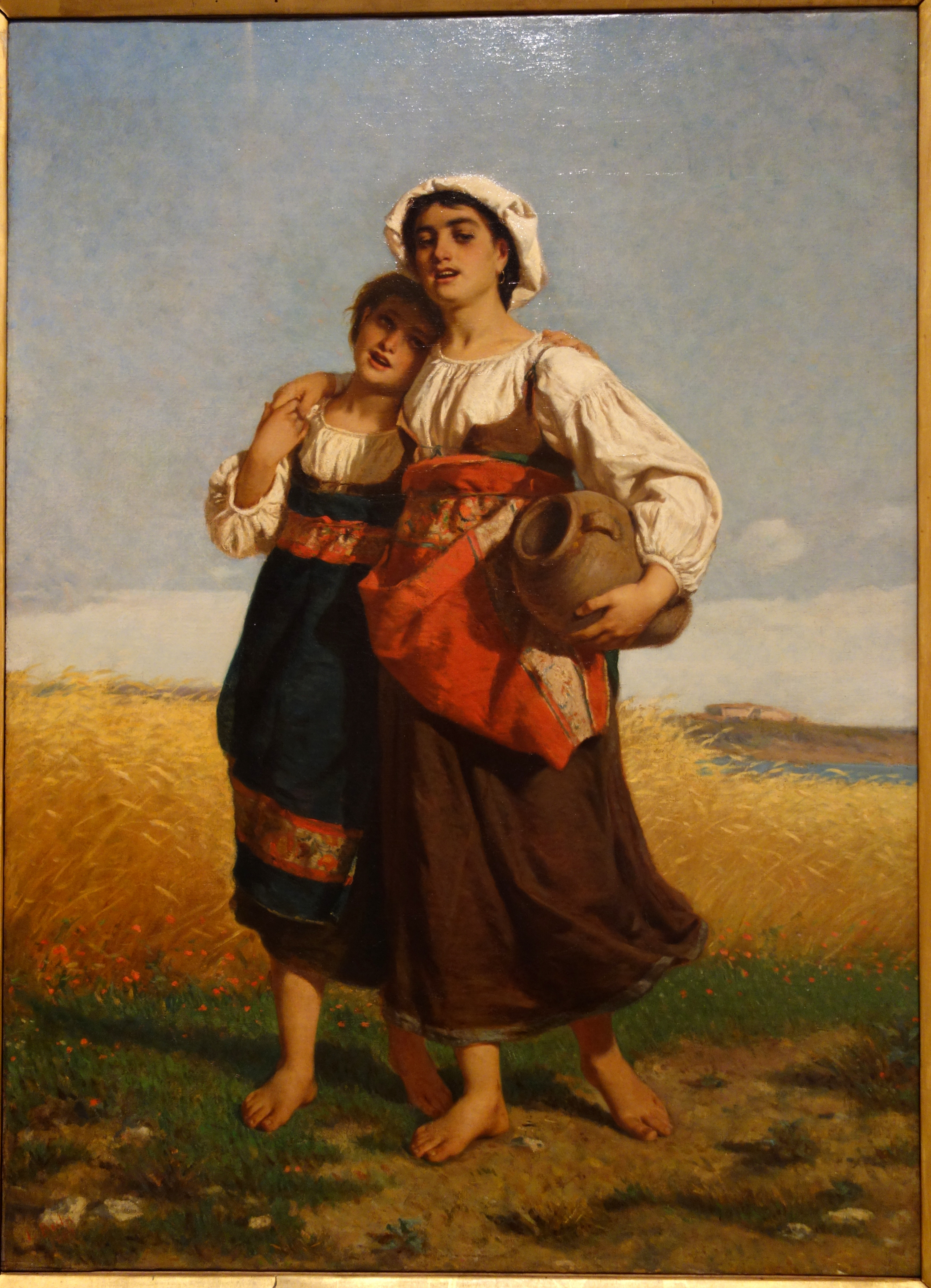 Spring of Life